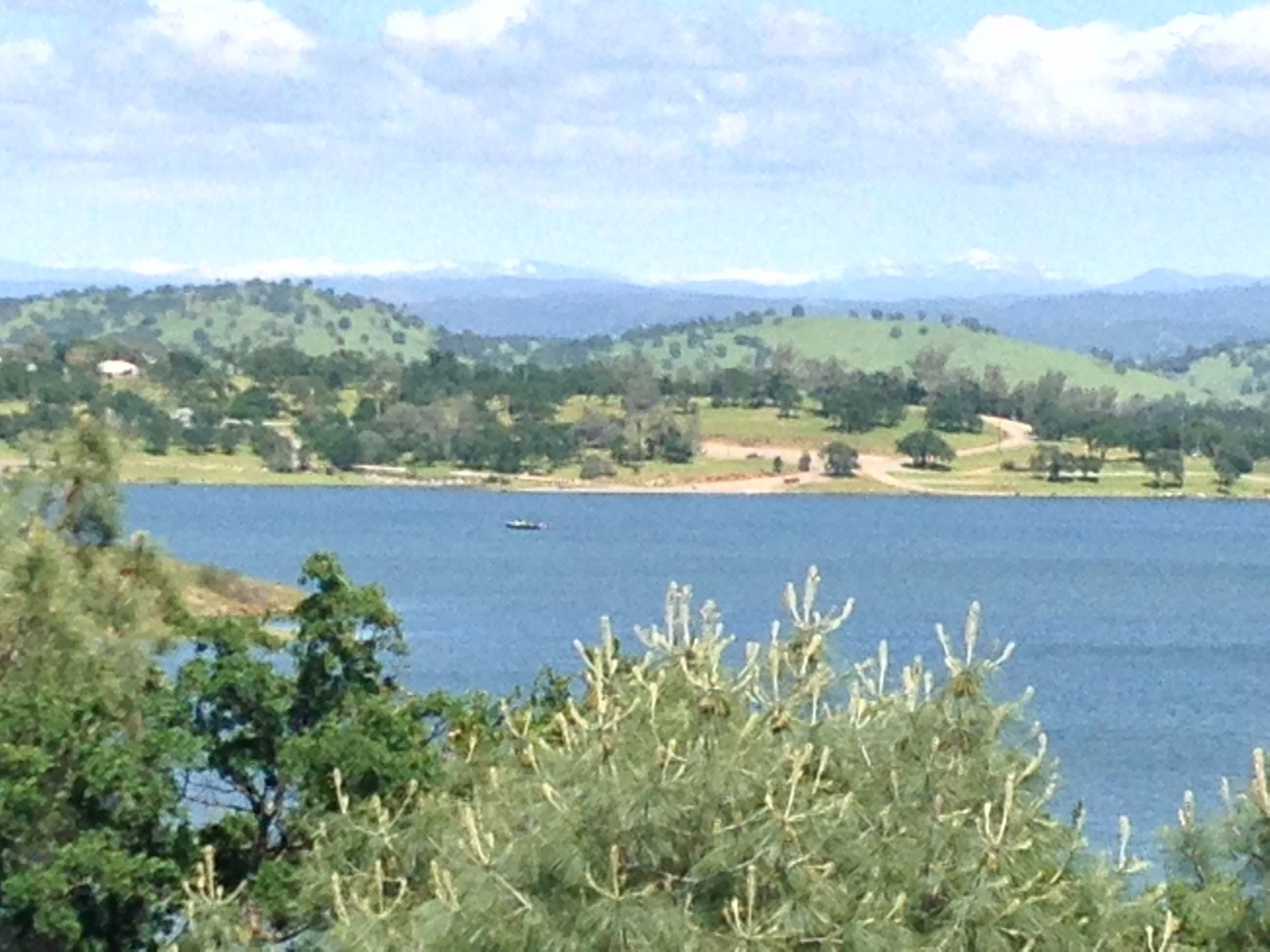 Valley Spring's New Hogan Lake in April.